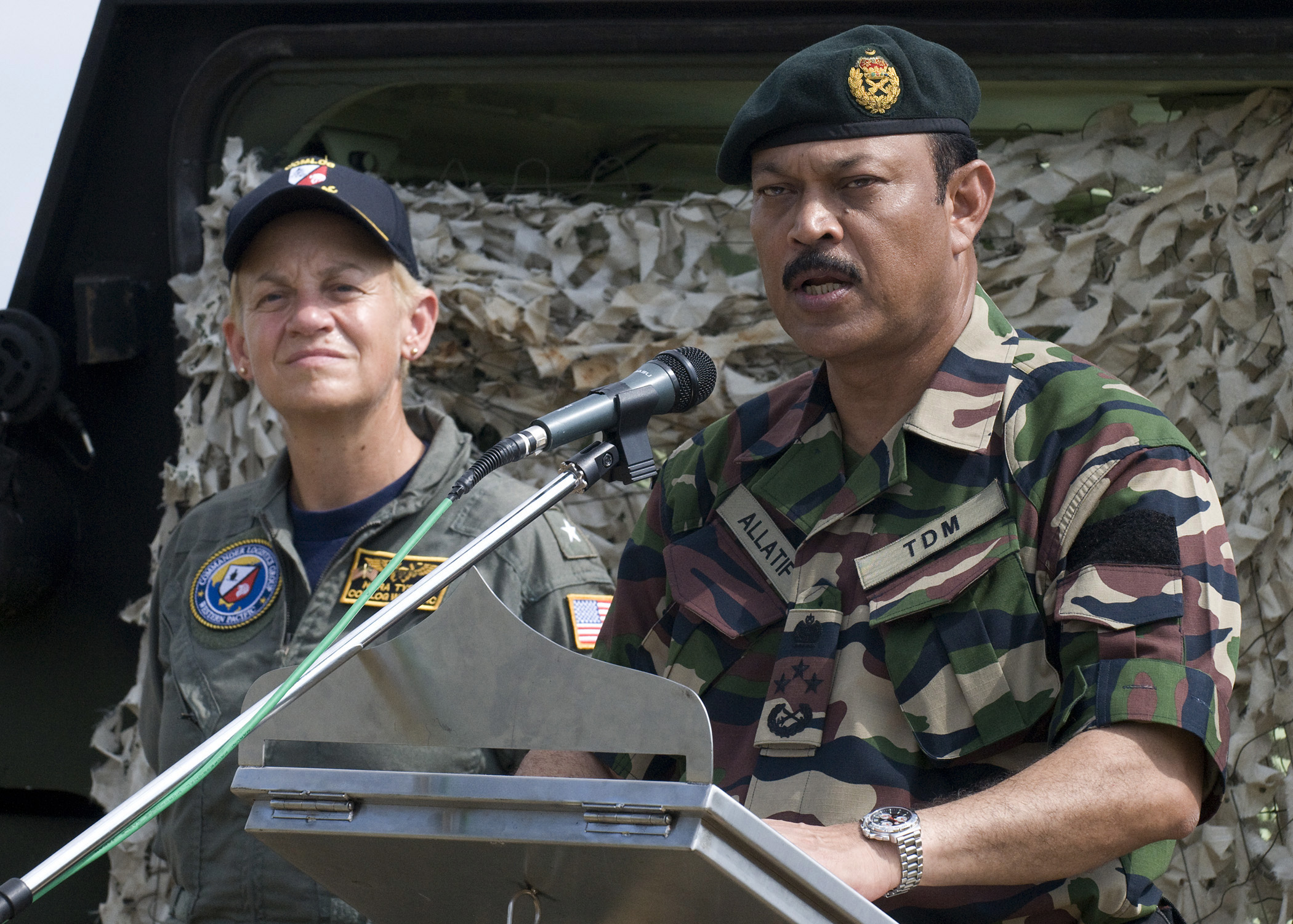 090701-N-1722M-641 TERENGGANU, Malaysia (July 1, 2009) Lt. Gen. Datoí Allatif Bin Mohd Nor, commander, Joint Force, Malaysian Armed Forces, speaks during the closing ceremony of Cooperation Afloat Readiness and Training (CARAT) Malaysia 2009 as Rear Adm. Nora Tyson, Commander, Logistics Group Western Pacific, looks on. CARAT is a series of bilateral exercises held annually in Southeast Asia to strengthen relationships and enhance the operational readiness of the participating forces. (U.S. Navy photo by Mass Communication Specialist 1st Class Michael Moriatis/Released)